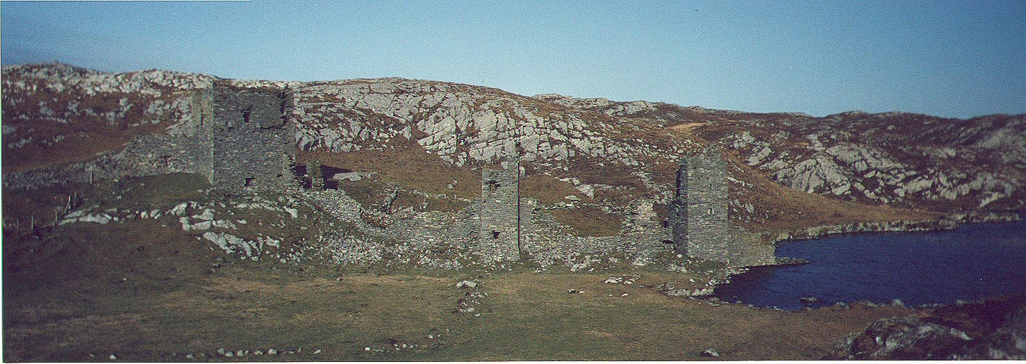 Southern view of Dunlough Castle.